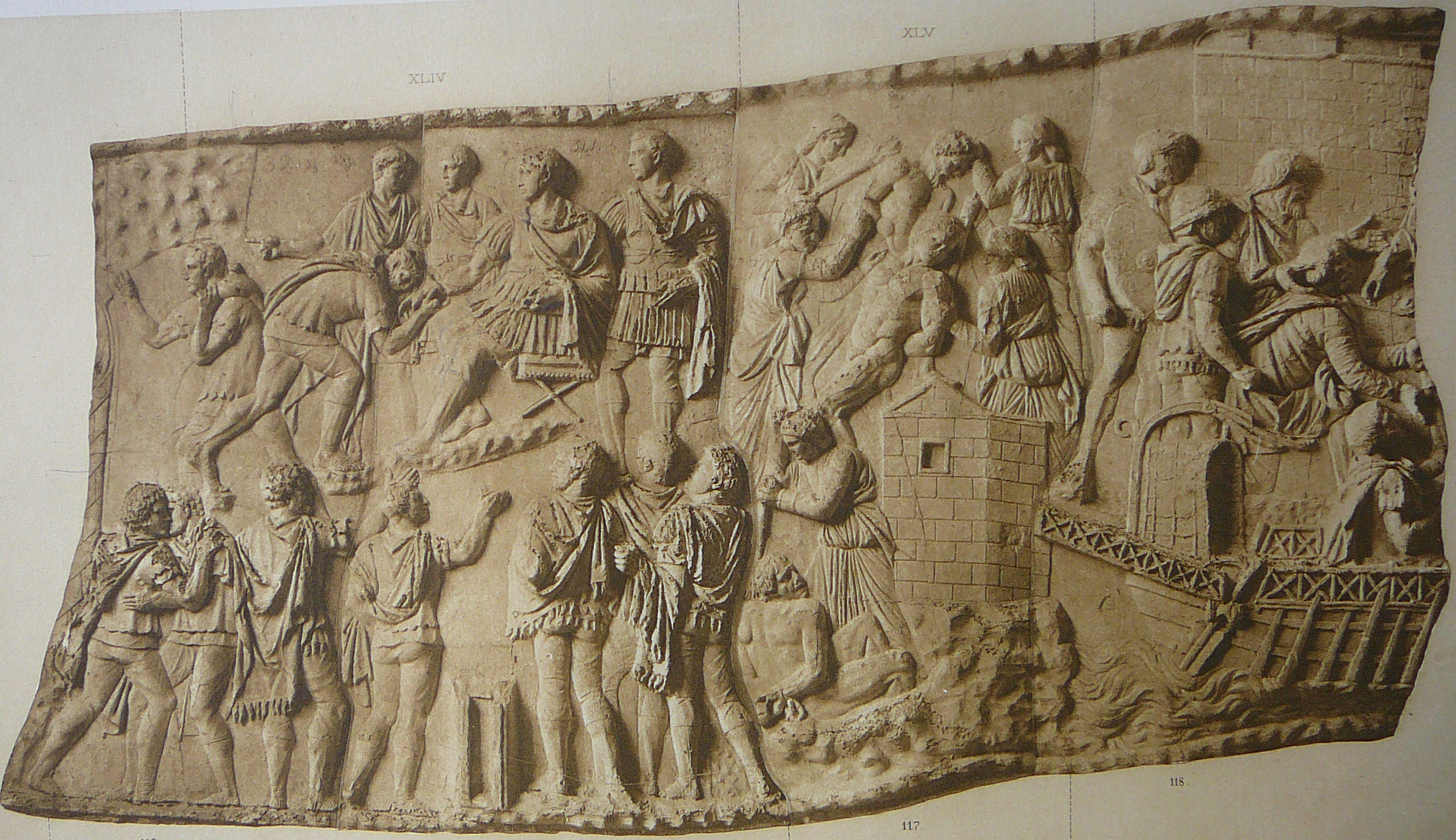 The emperor distributes rewards to his men (scene XLIV); torture of Roman prisoners (scene XLV); Trajan embarks (scene XLVI)